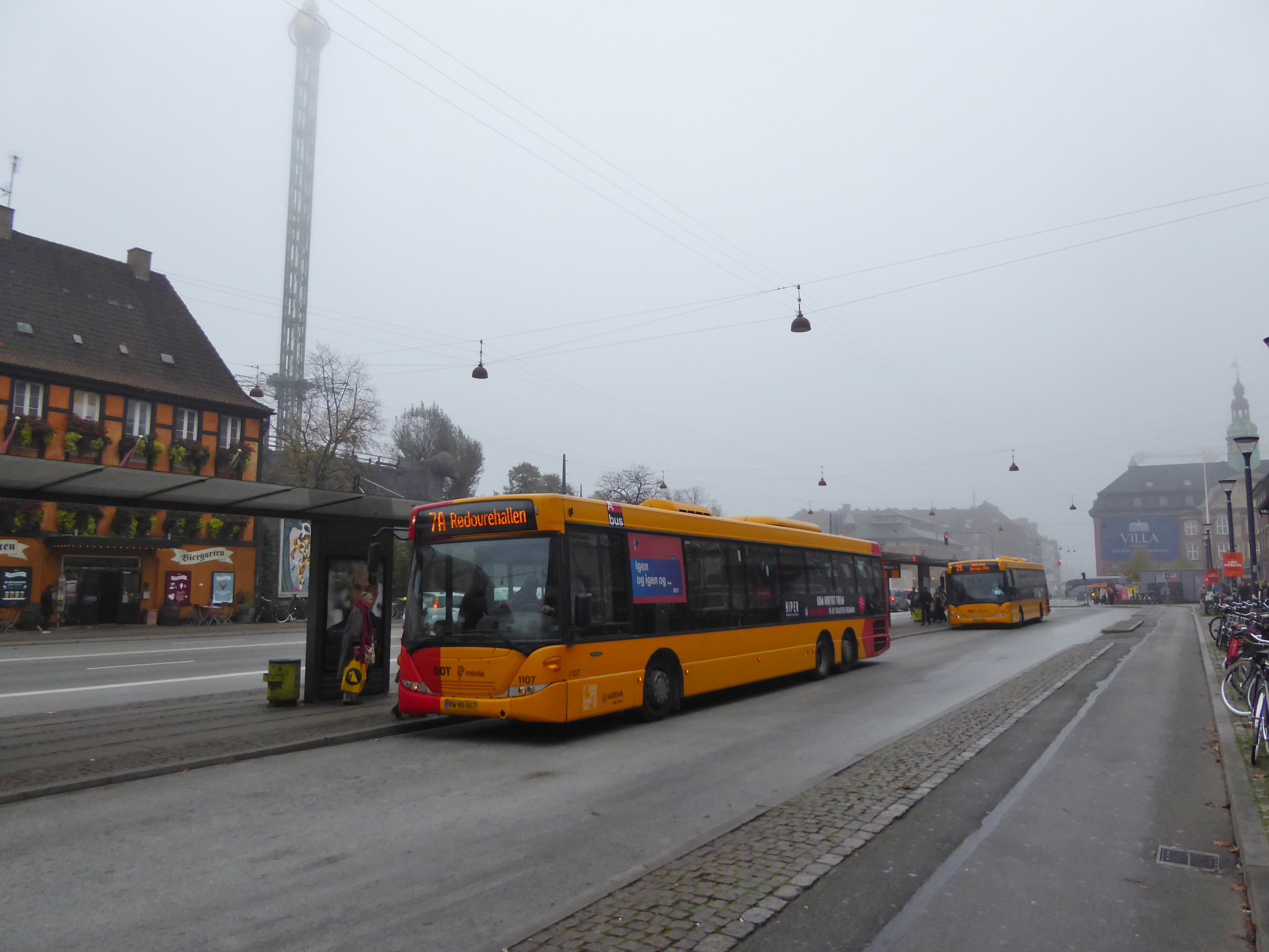 Movia bus line 7A and 26 on Bernstorffsgade at Københavns Hovedbanegård (Copenhagen Central Station).